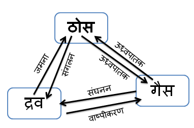 Changing states of matter